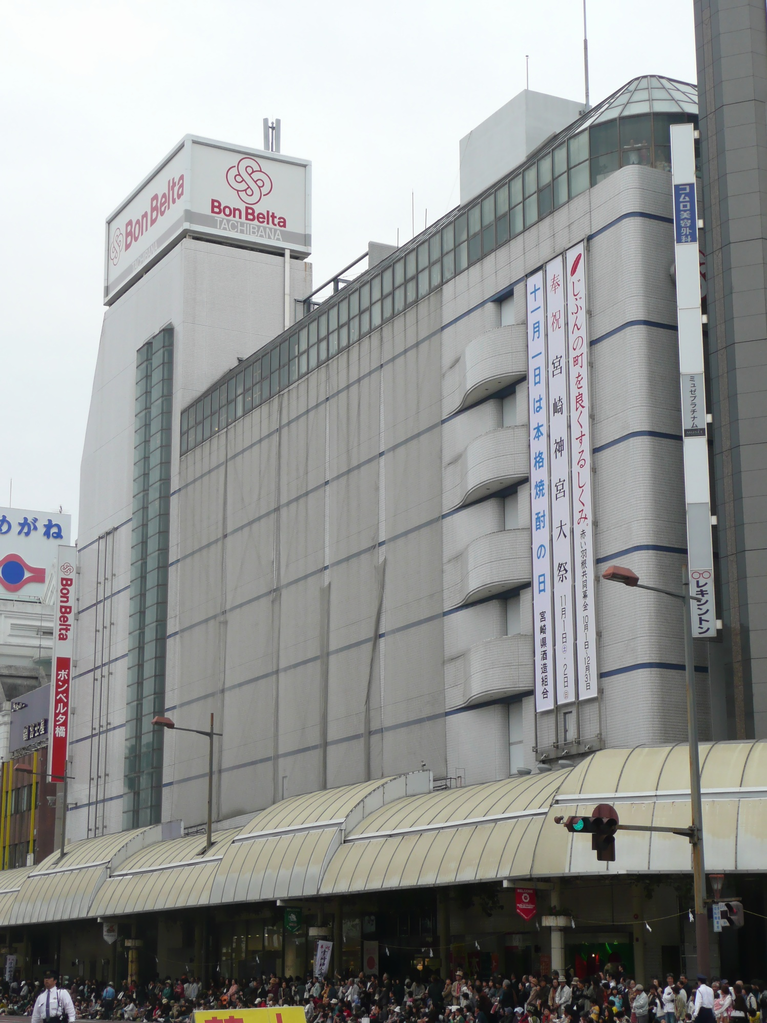 Bon Belta Tachibana Department Store on November 2008 (Miyazaki City, Japan)